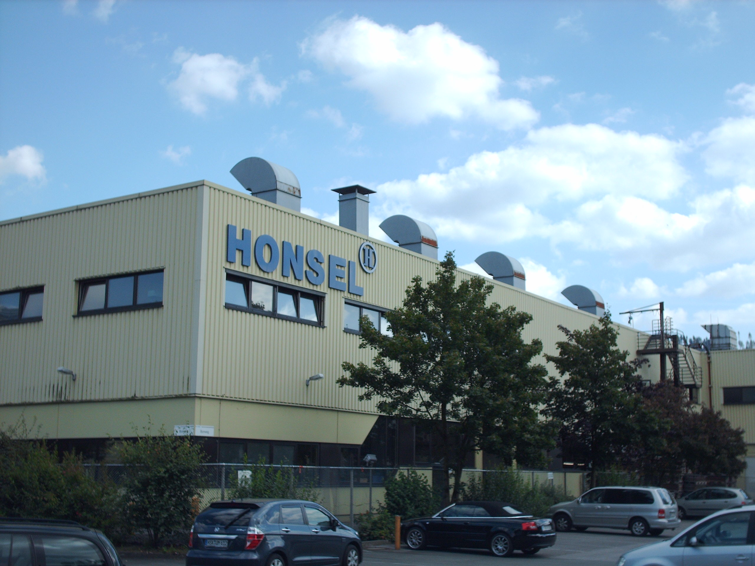 Honsel, Meschede, Germany check usage